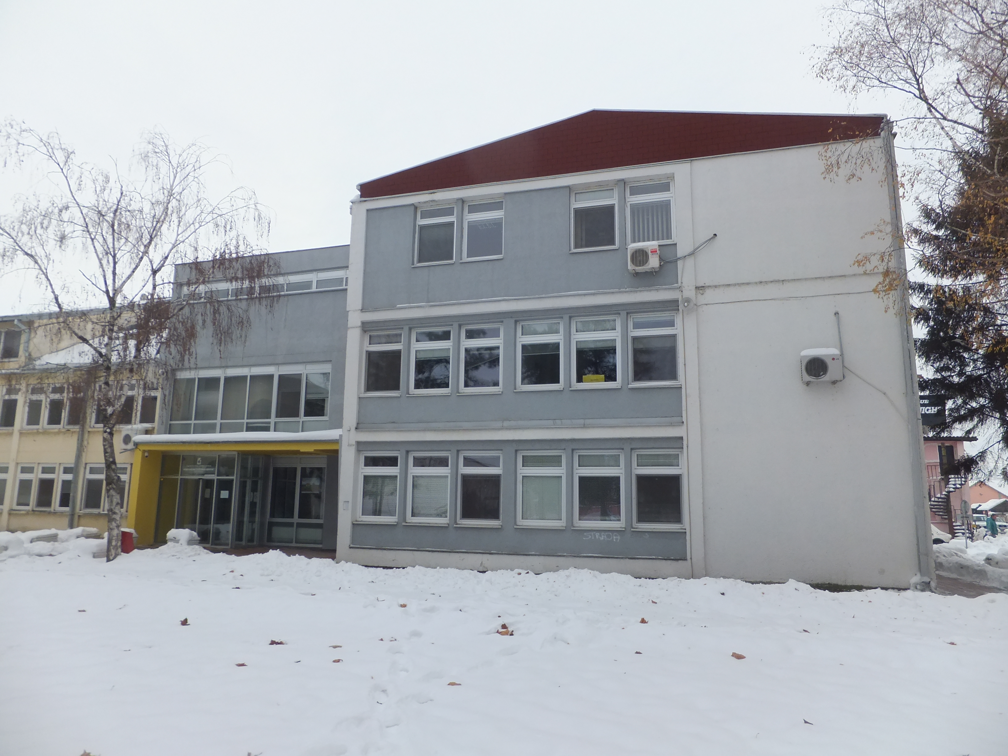 Municipality building in Pećinci